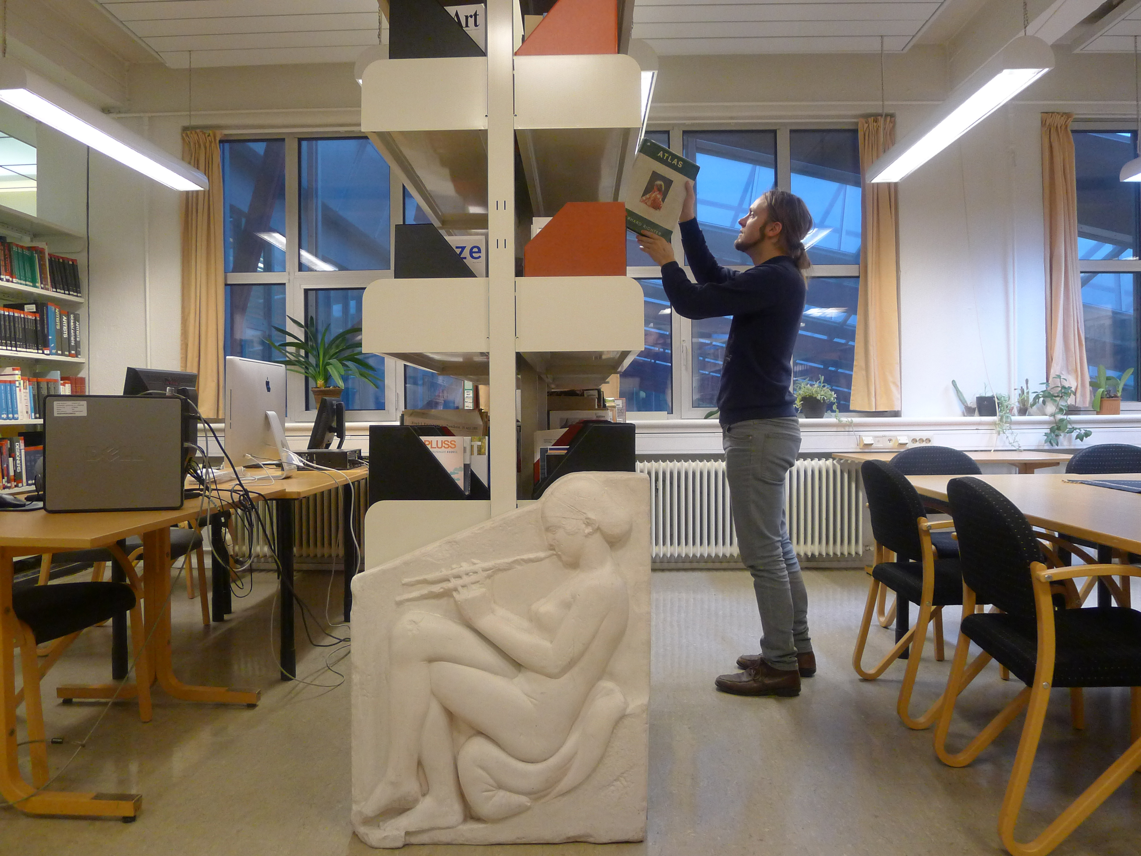 Interior of The Fine art library, one of the NTNU University Library's departments